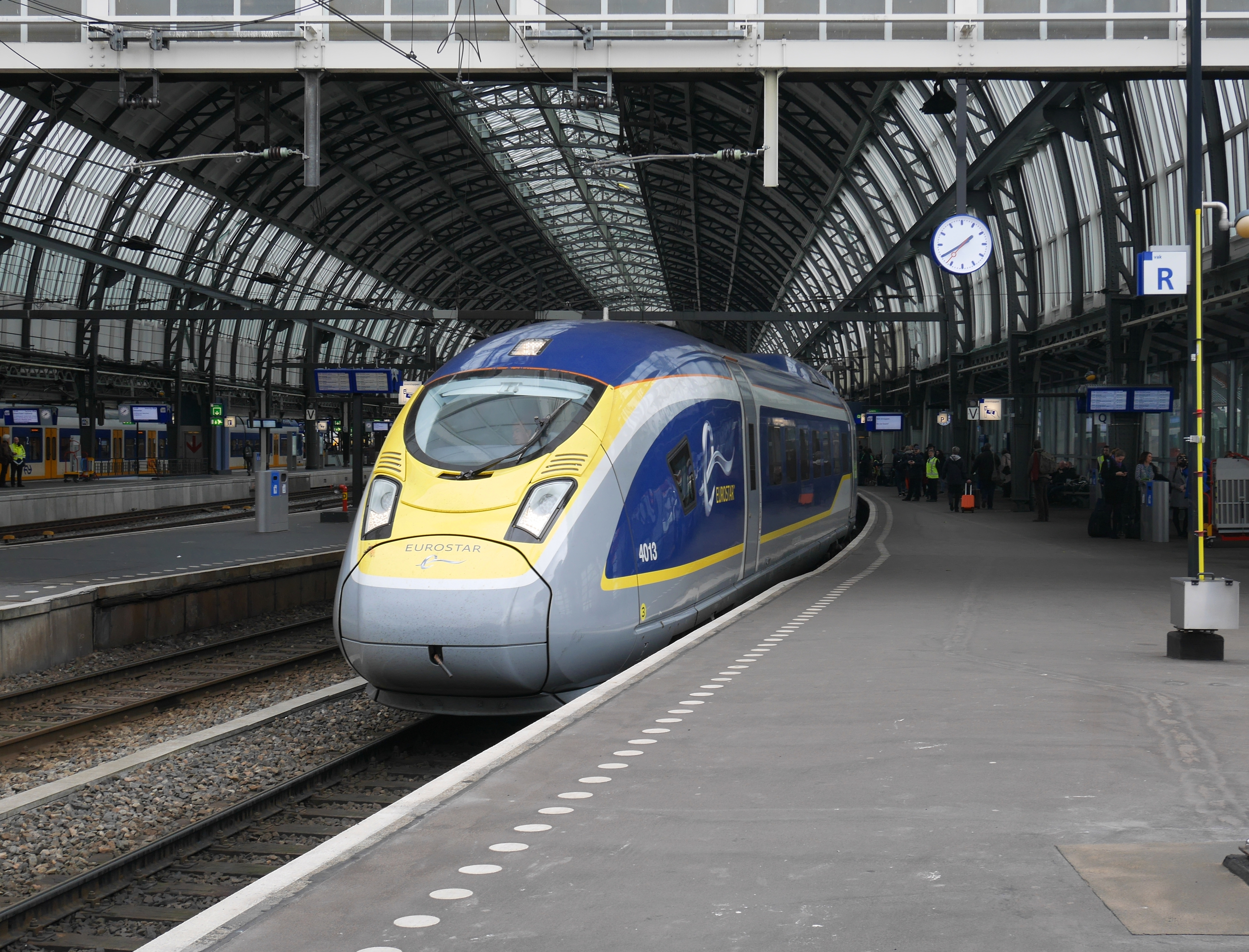 The first commercial Eurostar service coming from London arrives as EST 9114 (ES 9I14) at Amsterdam Centraal station.